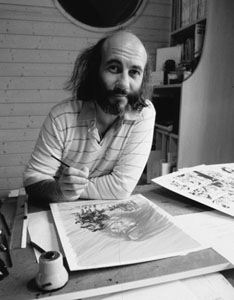 Derib